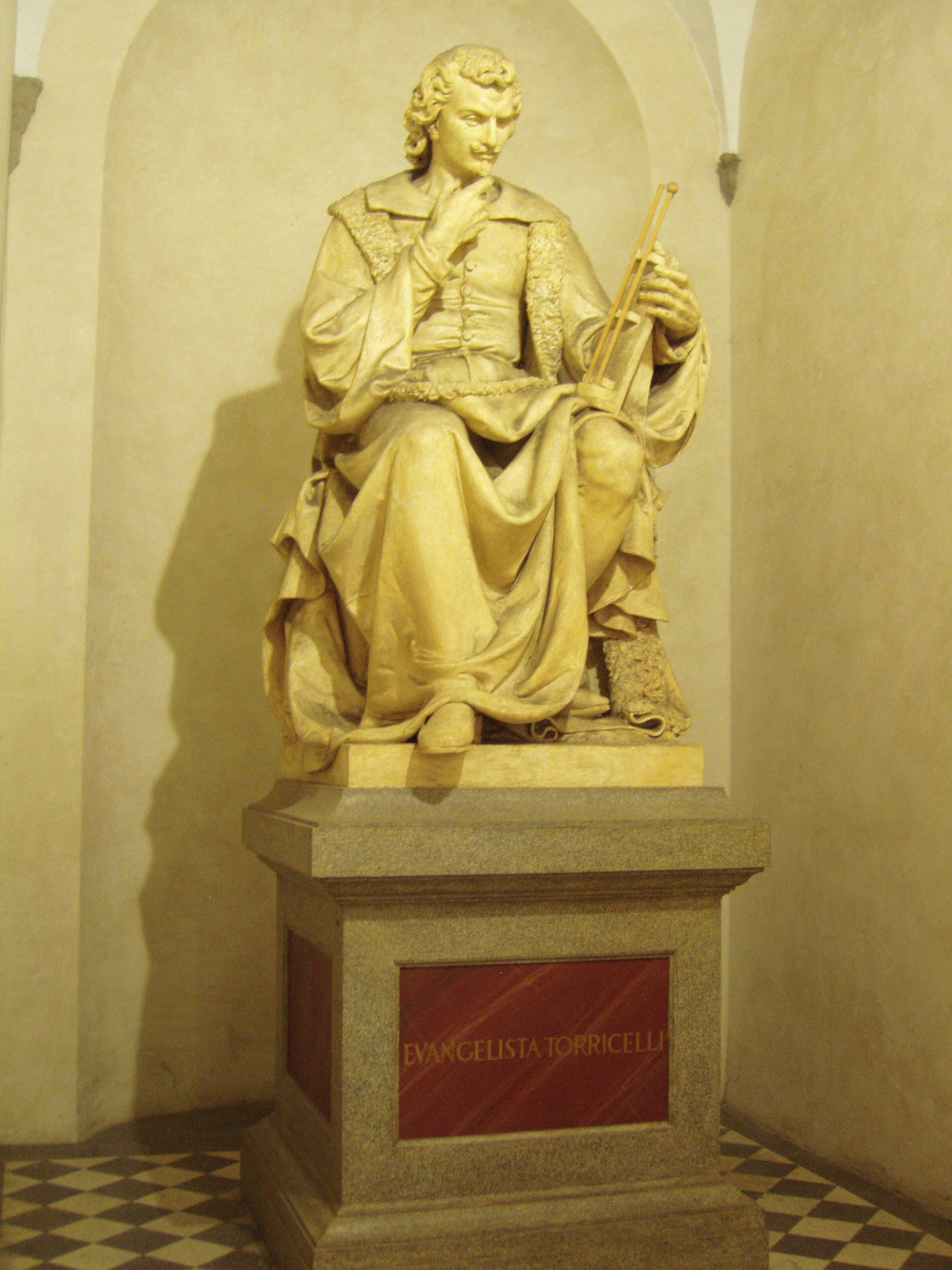 Statue of Evangelista Torricelli in the Museo di Storia Naturale di Firenze (Natural History Museum, Florence, Italy).